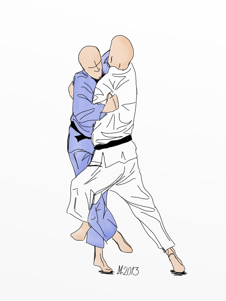 Illustration of the judo throw ko-soto-gake, or small outside-hook, a foot-sweep.